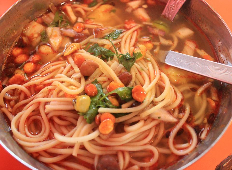 Nepalese thuppa at Phikkal Bazar in Ilam.